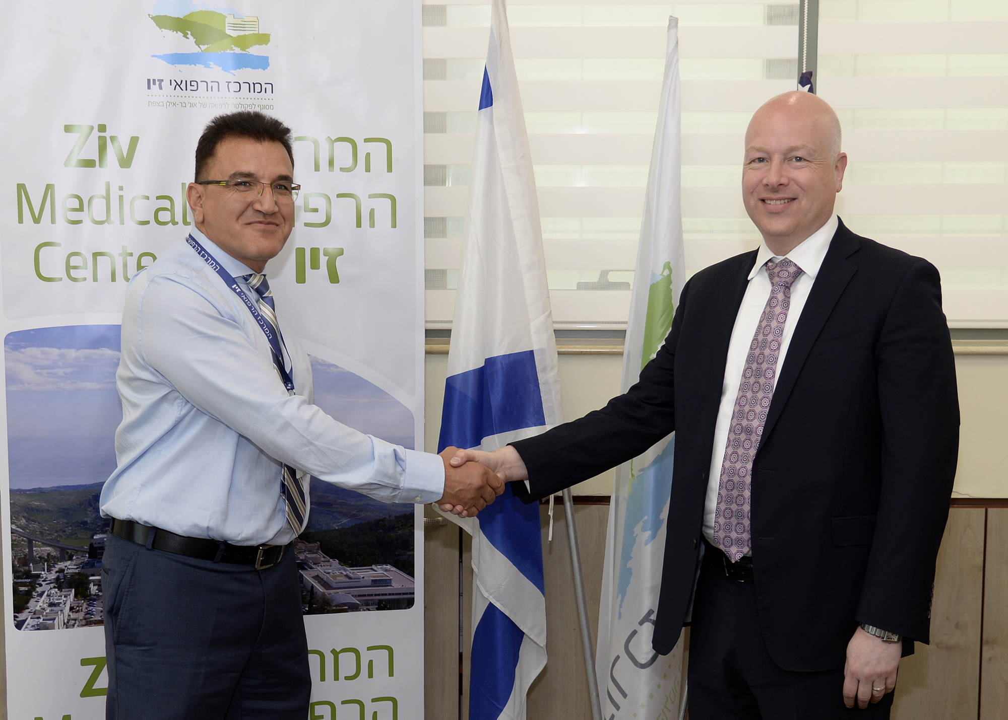 President Trump's Special Representative for International Negotiations Jason Greenblatt toured the Gaza periphery area, visited Ziv Hospital in Safed, and the Old City of Jerusalem, August 29-30, 2017.